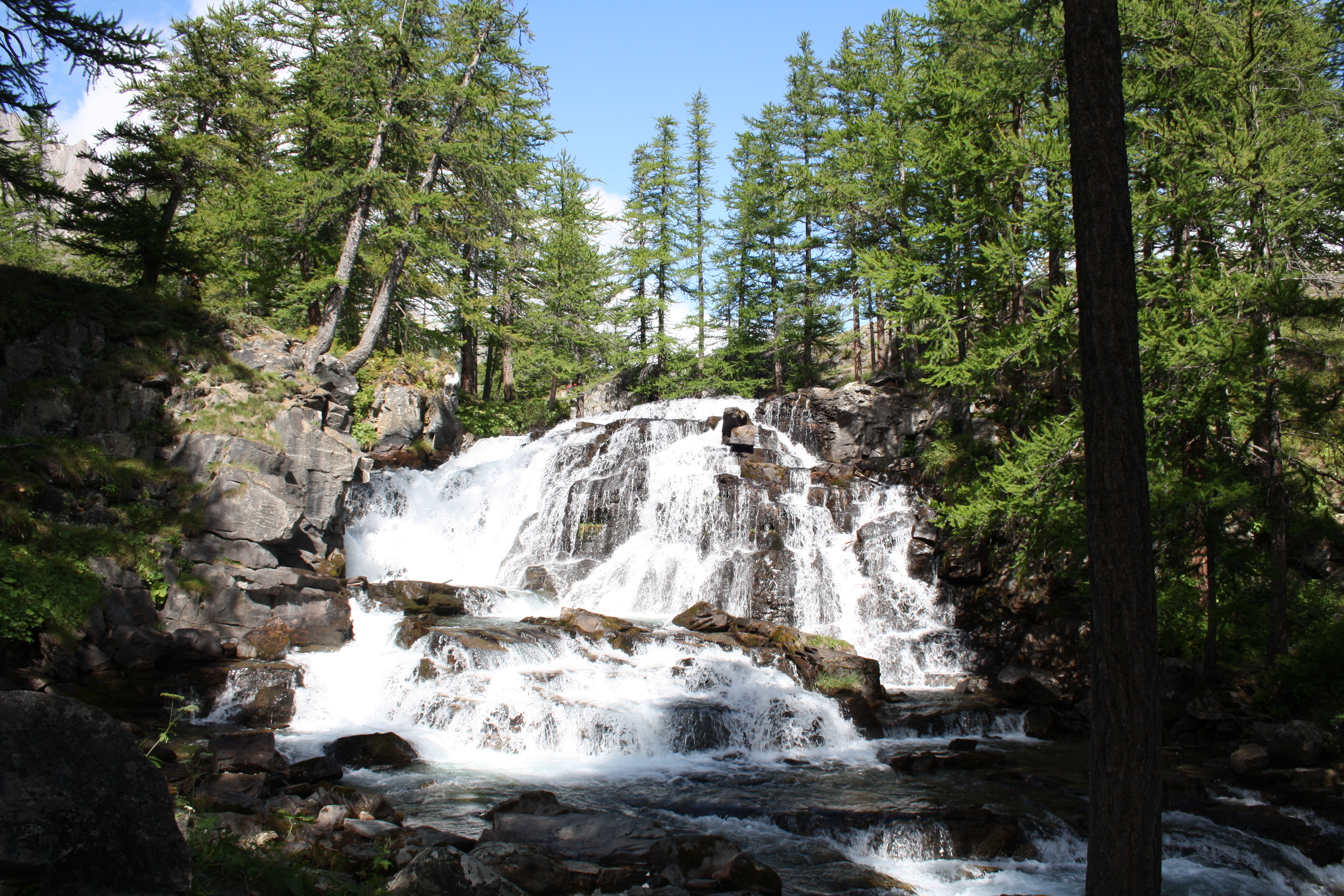 Cascade de Fontcouverte, august 2010, Vallée de la Clarée, France